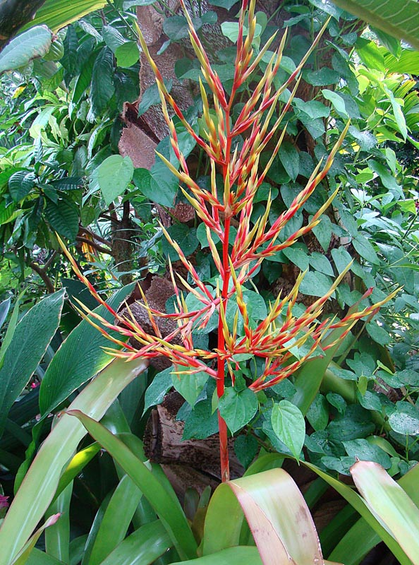 Native to eastern Brazil. There are cultivars with colored leaves. Denver Botanical Gardens.